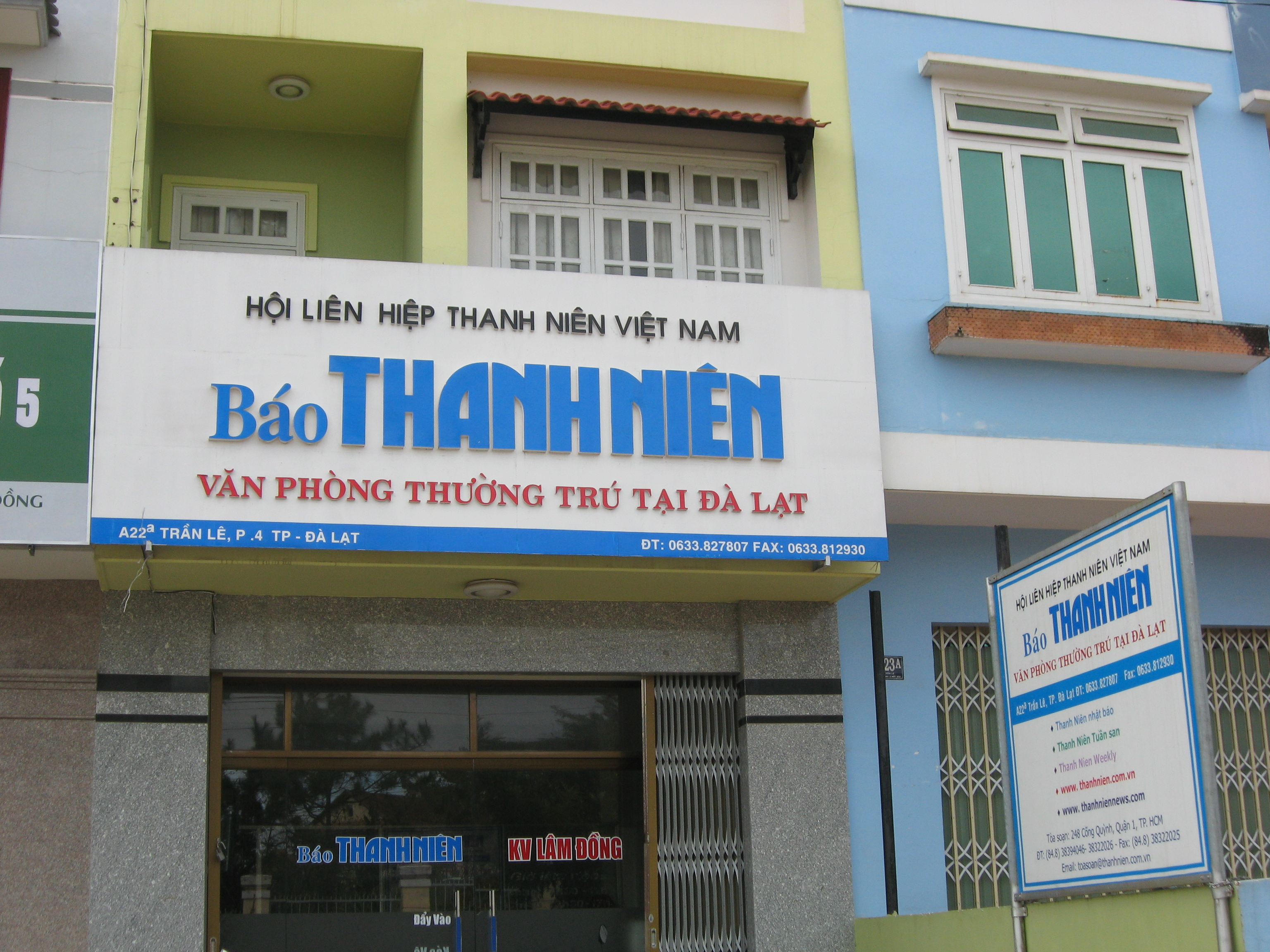 Bao Thanh Nien, Lam Dong